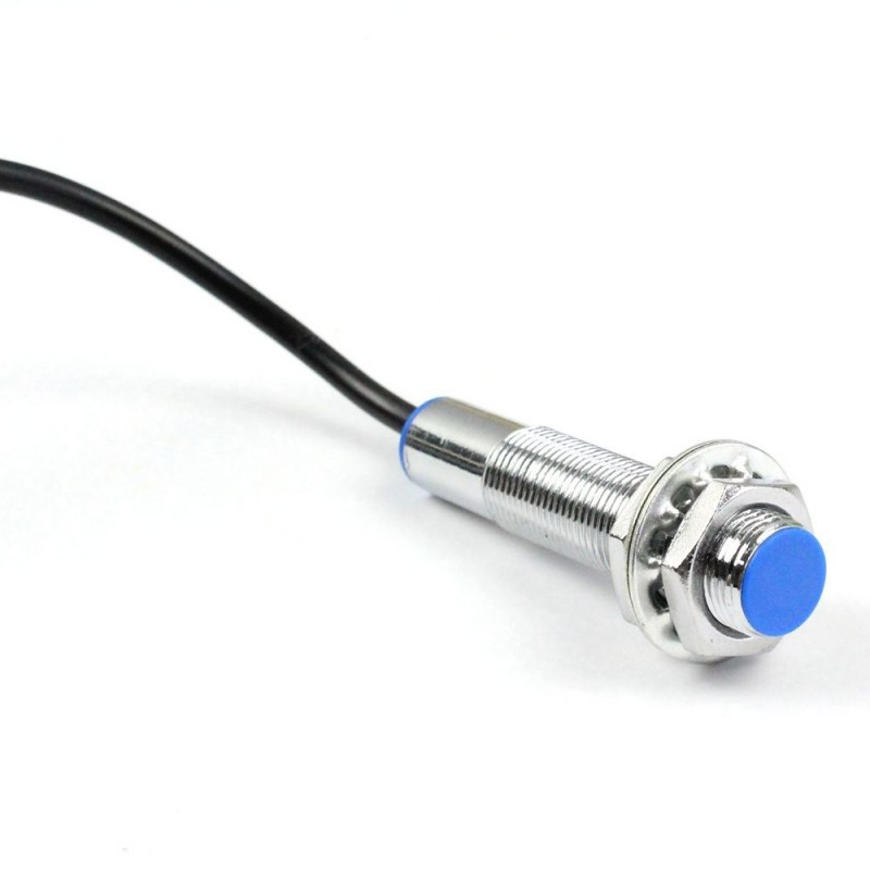 Hall effect proximity sensor